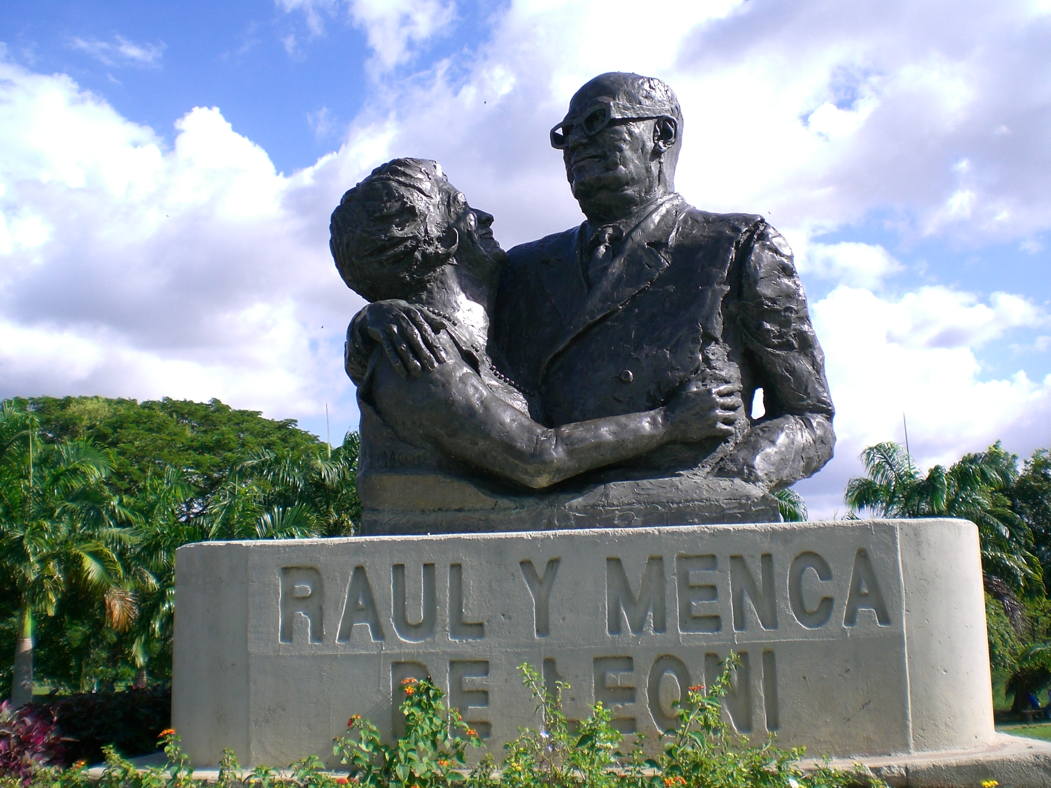 Raúl Leoni and Doña Menca monument, Ciudad Bolívar.